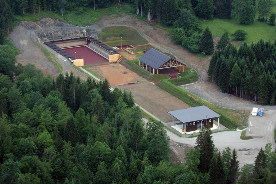 Shooting range of the Slovenian armed forces in Škrilj, SloveniaSlovenščina: Strelišče Slovenske vojske na Škrilju